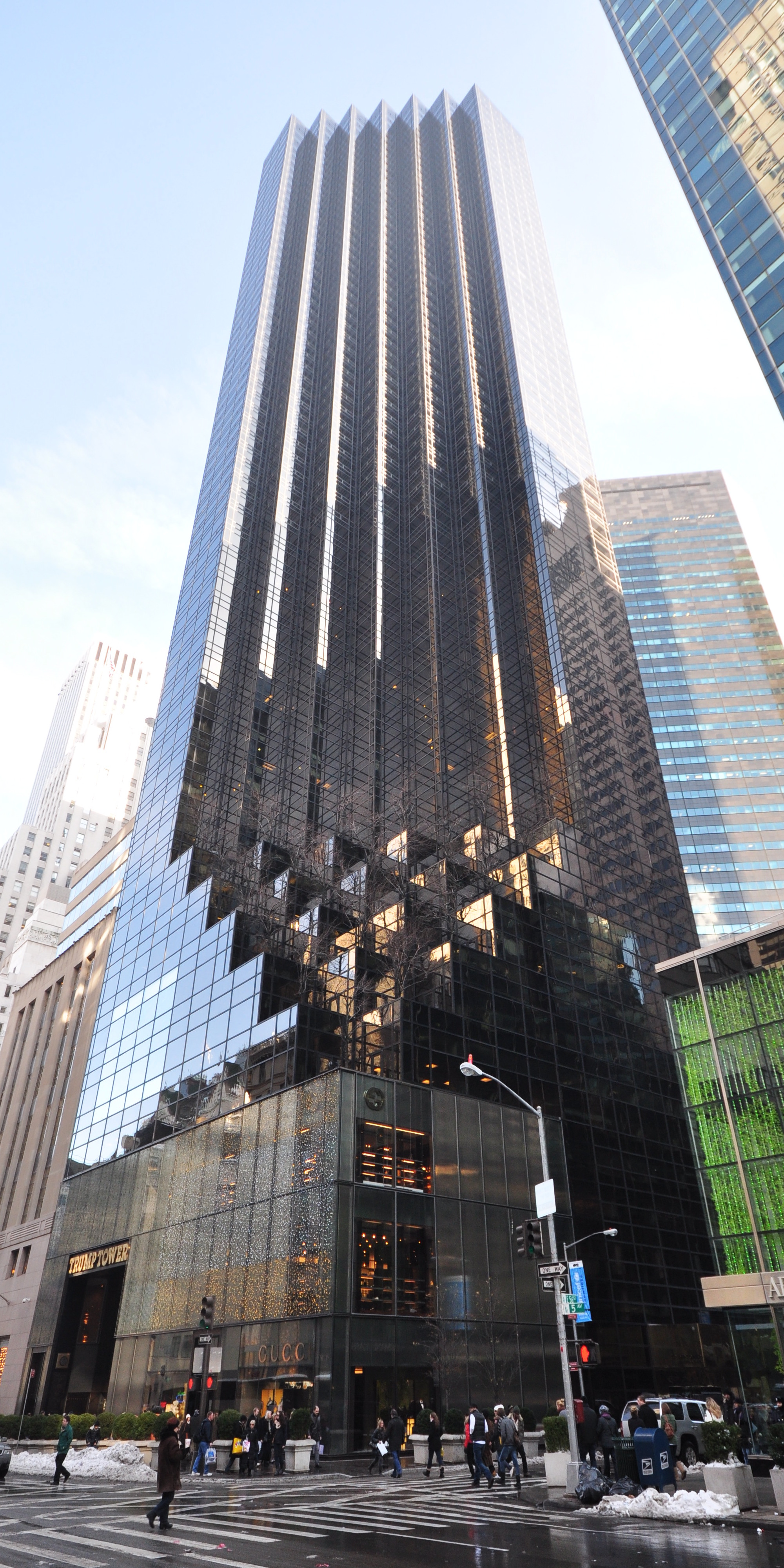 Trump Tower is a 58-story mixed-use skyscraper located at 725 Fifth Avenue, at the corner of East 56th Street in Midtown Manhattan. The Trump Tower is the 52nd tallest building in New York City. The tower is a reinforced concrete, shear-wall/core structure and was the tallest structure of this type in New York City when completed. A concrete hat-truss at the top of the building ties exterior columns with the concrete core. This increases the effective dimensions of the core to that of the building in order to resist the overturning of lateral forces (wind, minor earthquakes, and impacts perpendicular to the building’s height). A similar structure was used for Trump World Tower. Ordinarily a building of that height could not have been built on the small site. By mixing uses (retail, office, and residential), constructing a through-block arcade (connecting to the IBM building to the east), and using the air rights from Tiffany’s flagship store next door, and including the atrium (designed as a “public space” under the city codes at the time), Trump was able to assemble a bonus package that enabled a taller tower. The building’s public spaces are clad in Breccia Pernice, a pink white-veined marble and brass and mirrors are used throughout. This includes the office lobby, off Fifth Avenue, and the five-level atrium which has a waterfall, shops, cafés, and a pedestrian bridge that crosses over the waterfall’s pool. The atrium is crowned with a skylight. In 2006, Forbes Magazine valued the tower at $318 million. Trump Tower is the setting of the NBC television show The Apprentice including the famous boardroom where at least one person will be fired at the end of each episode (actually a television studio inside Trump Tower). It is additionally the official residence for the winners of the three beauty pageants that are co-owned by Donald Trump as the Miss Universe Organization with NBC, which are the Miss Universe, Miss USA and Miss Teen USA during their year-long reign.